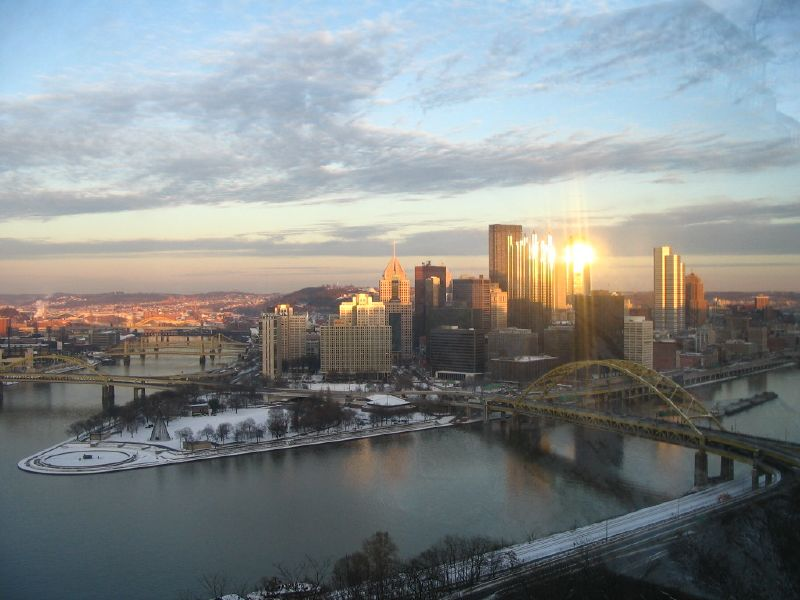 "Pittsburgh from Mt. Washington", a photograph of the city in early morning light